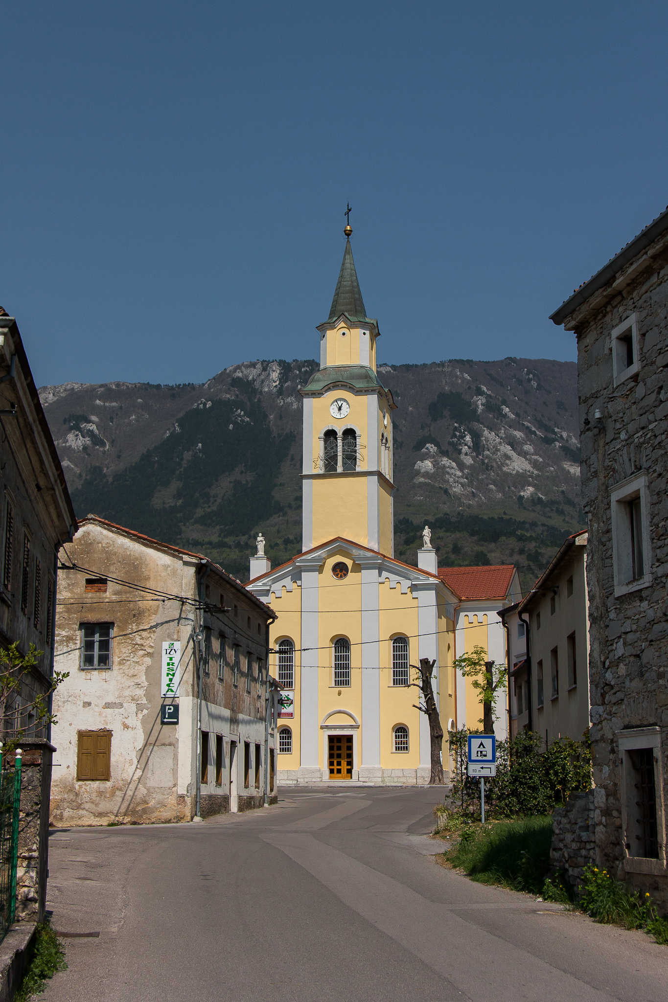 Church, Vrhpolje